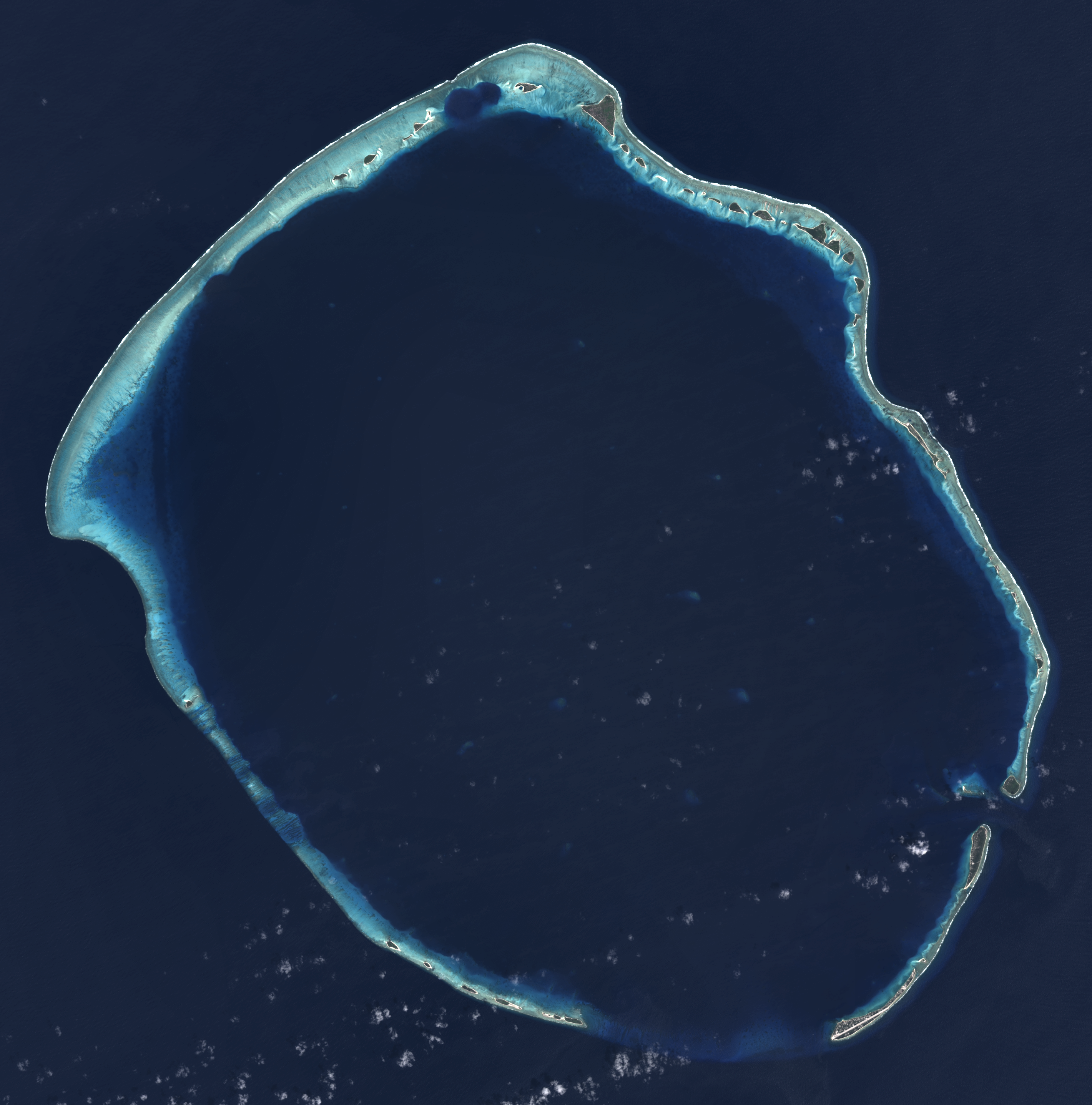 Composite "true color" multispectral satellite image of Enewetak Atoll. NASA Landsat 8 OLI bands used were 4 (red), 3 (green), 2 (blue). Pan-sharpened with band 8. Manual color balance. Projection: UTM (zone 57), WGS84. Imagery courtesy NASA/USGS.